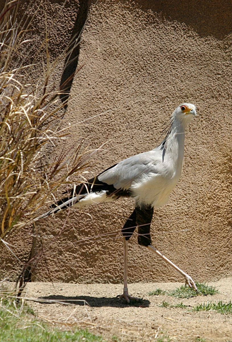 A Secretary Bird at the San Diego Zoo in San Diego, California, USA.